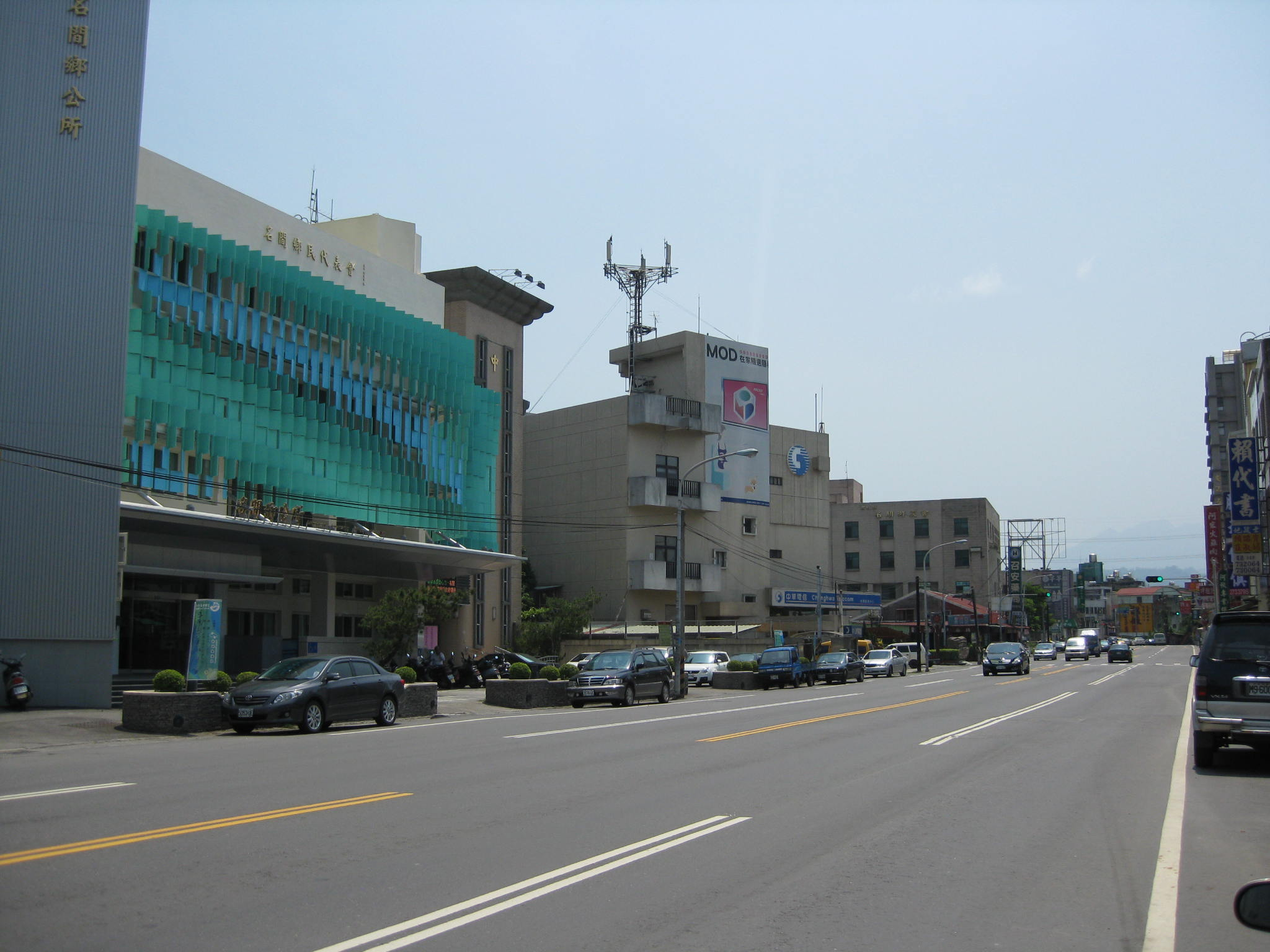 Provincial Highway No.3 runs southward through dry valley to Jiji and Zhushan,showing a section at downtown Mingjian.The valley is called "Mingjian Windgap",it was discovered by Tomita Yoshiro in 1930s.